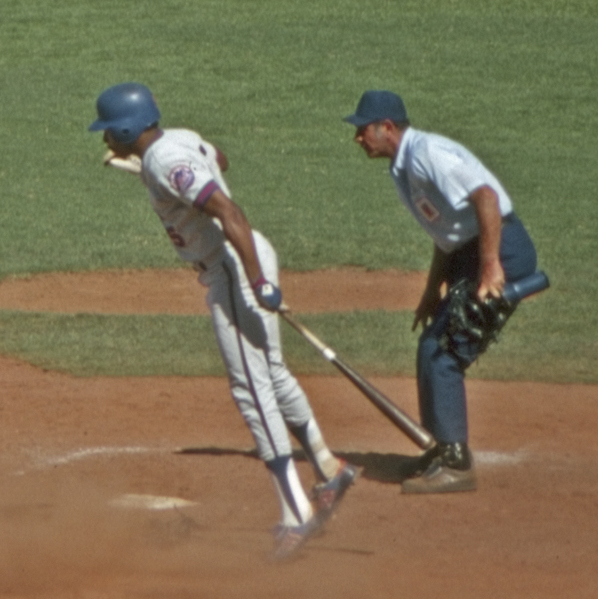 NY Mets' Lee Mazzilli is about to be out trying to steal home base. LA Dodgers' catcher Johnny Oates and pitcher Lance Rautzhan are protecting home while the Mets' Steve Henderson is at bat. The Mets won 8 to 5 at Dodger Stadium.. (Scanned from 35mm Kodachrome 64 slide)